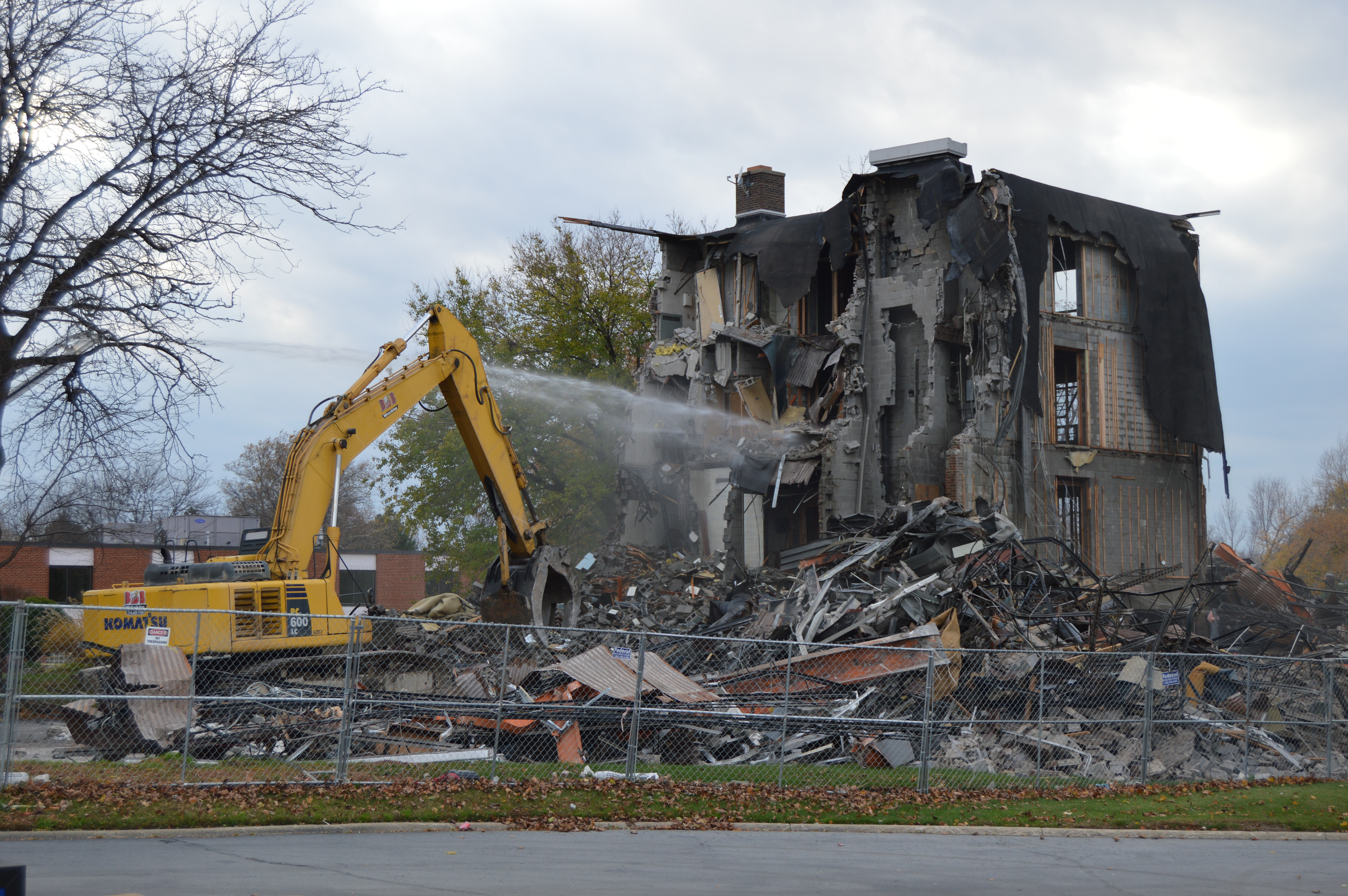 Demolition of a building on the northern side of E. Erie Street (U.S. Route 20) adjacent to the Burger King in downtown Painesville, Ohio, United States. The water stream originates from a fire engine just out of view to the left.